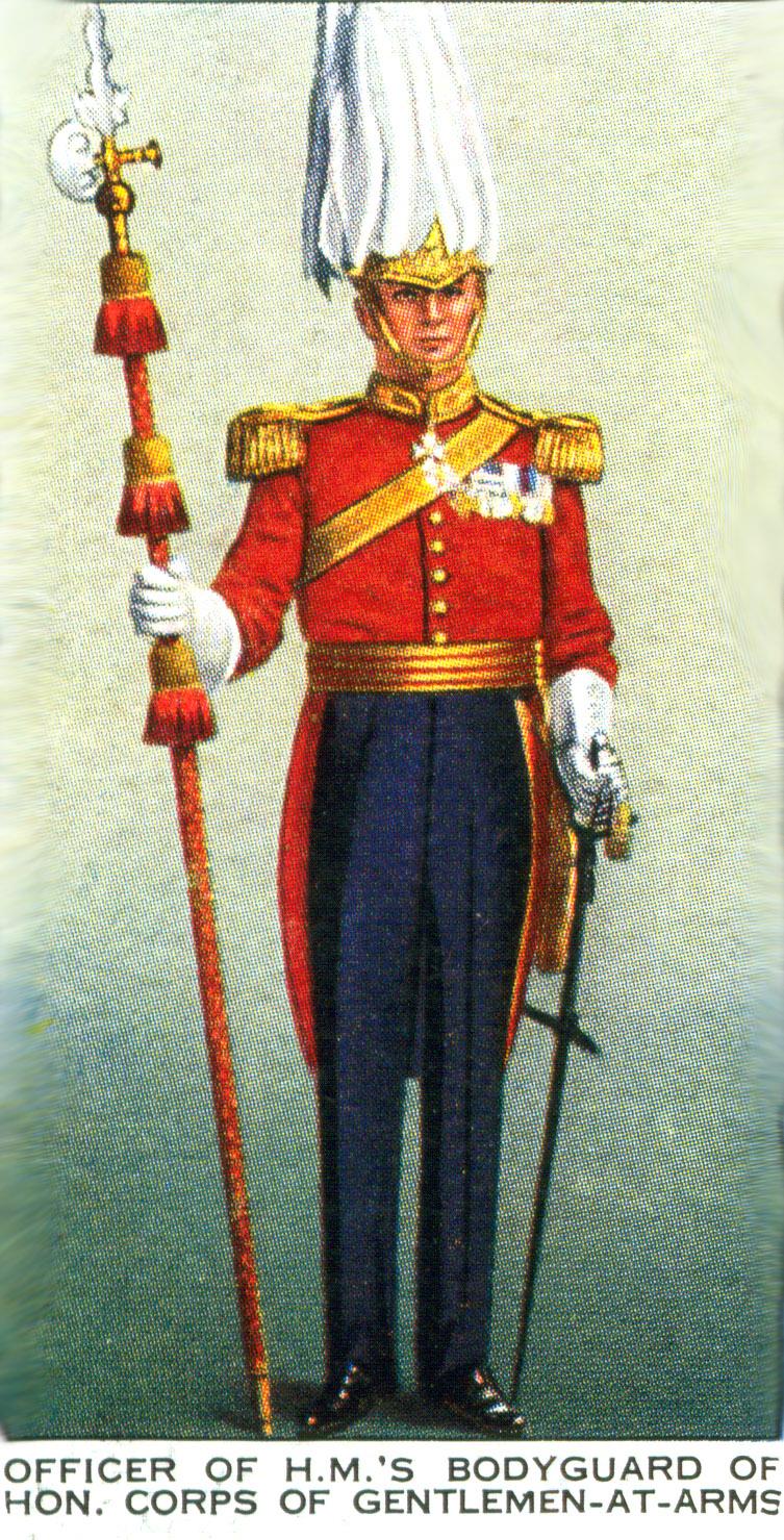 Player's cigarettes. Coronation series, ceremonial dress